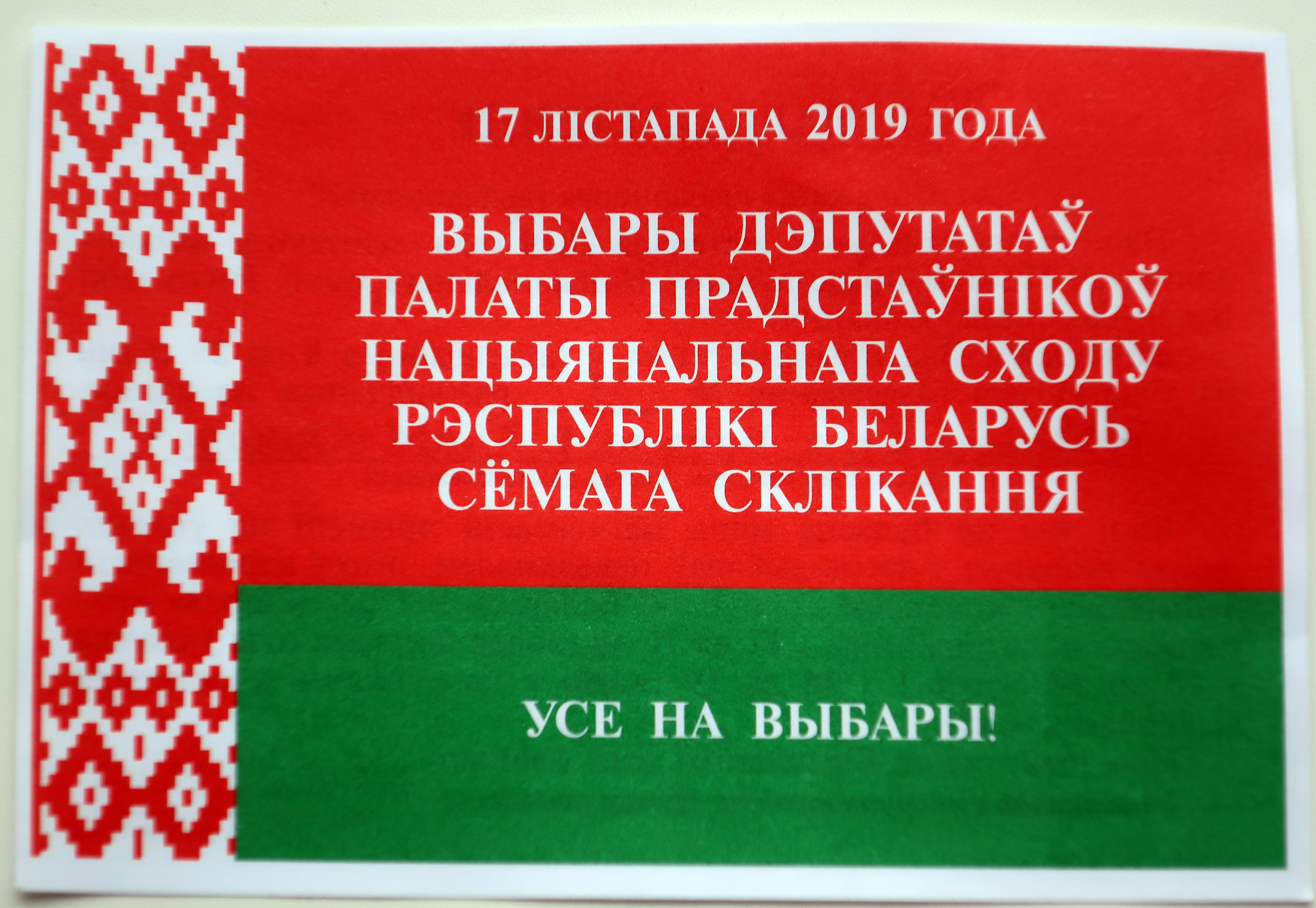 Invitation to parliamentary election in Belarus, 17 November 2019. Translation: 17 NOVEMBER 2019 // ELECTIONS OF THE MEMBERS // OF THE HOUSE OF REPRESENTATIVES // OF THE NATIONAL ASSEMBLY // OF THE REPUBLIC OF BELARUS // SEVENTH CONVOCATION // EVERYONE COME TO THE ELECTION!